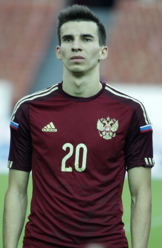 Yevgeni Kirisov playing for Russia U-21 against Estonia U-21 on 21 January 2016.